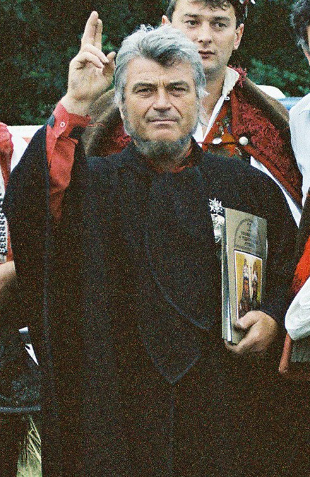 This is my photo of Serbian painter Milić of Mačva. The photo was taken in 1990 in Subotino Brdo, Lika.